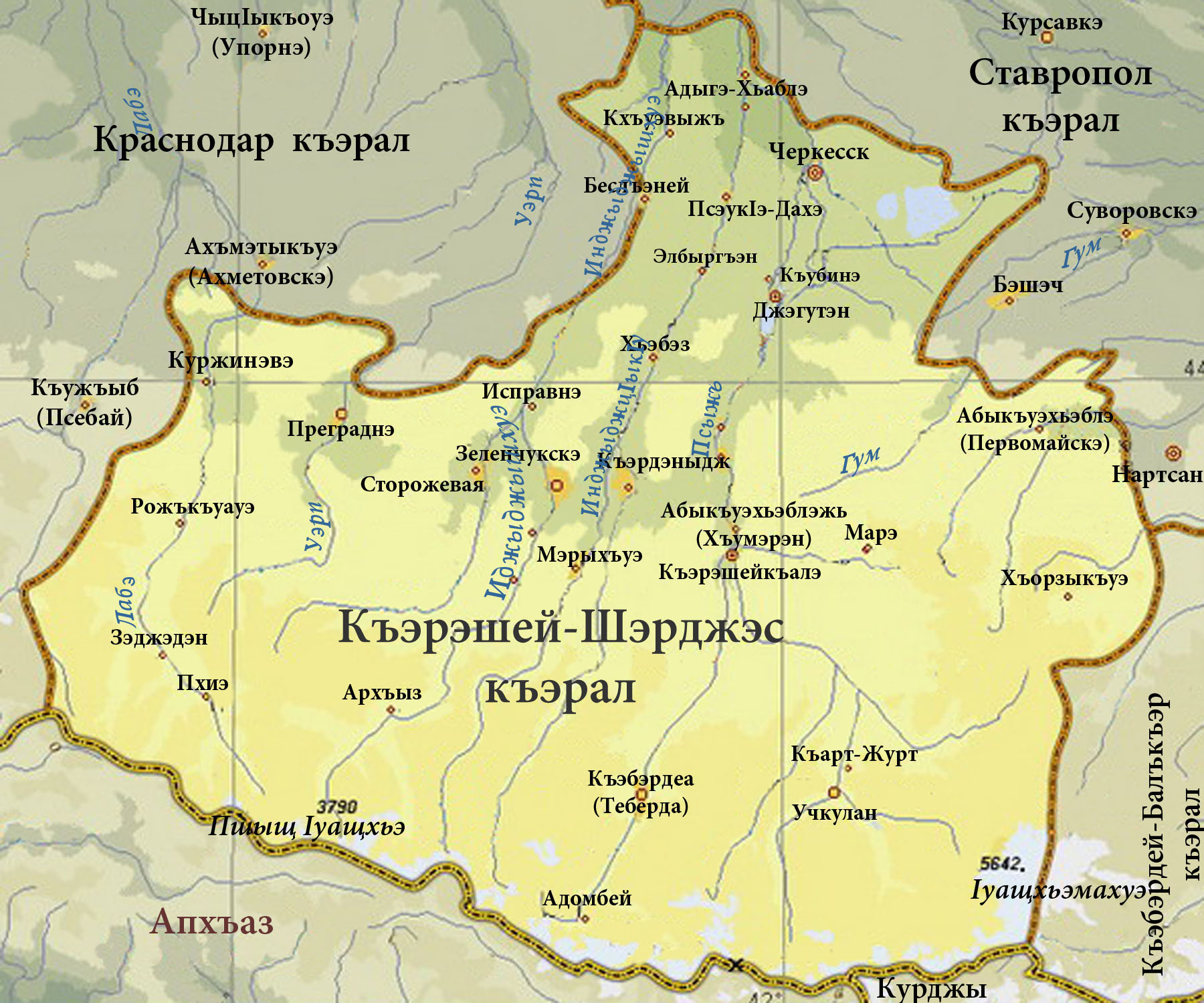 Map of Karachay-Cherkаssian (Federal subject province), in southwestern Russia (Russian text).